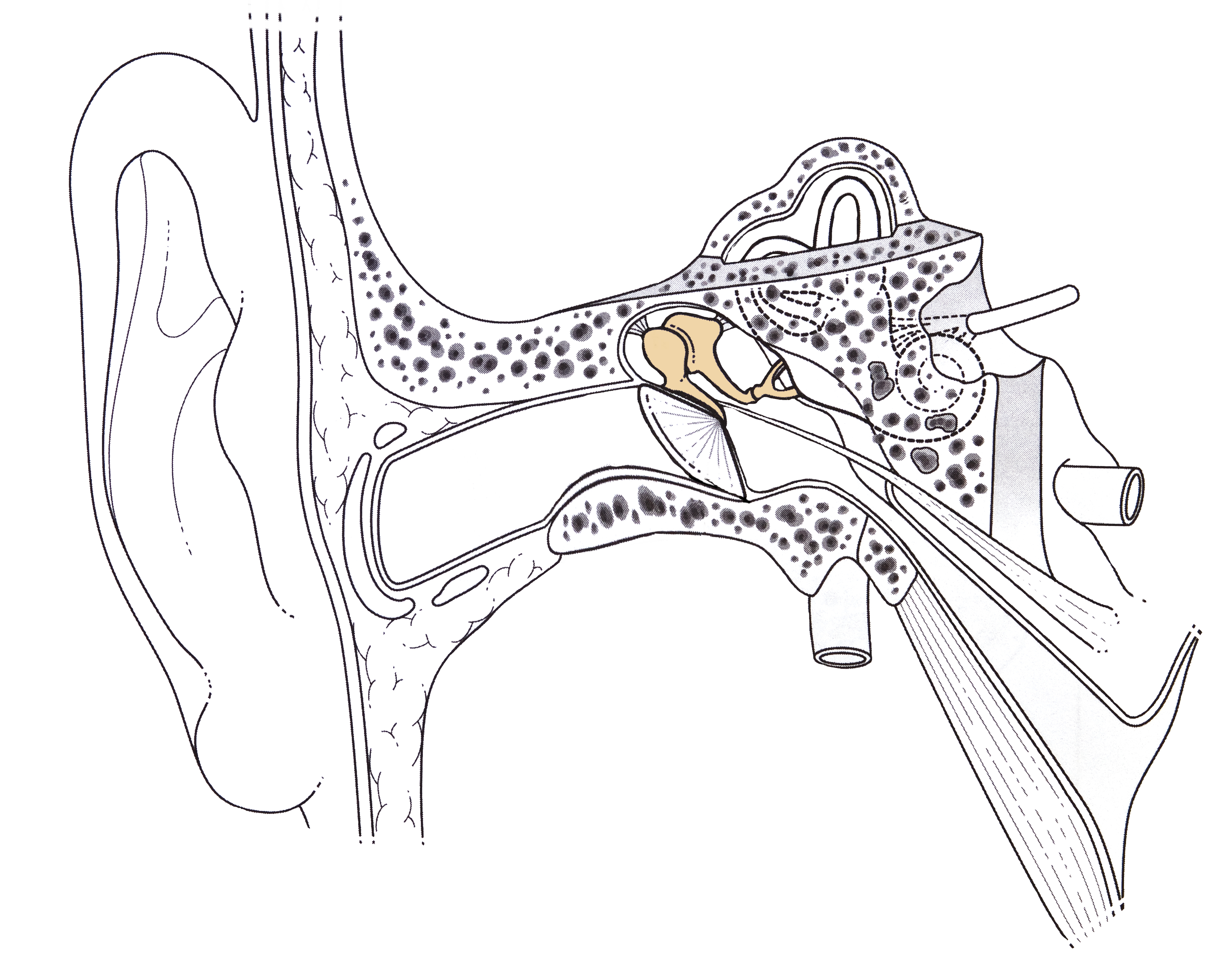 Ossicles - Schema